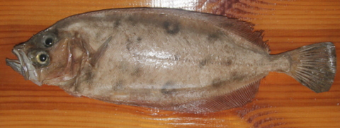 A large megrim from Ireland